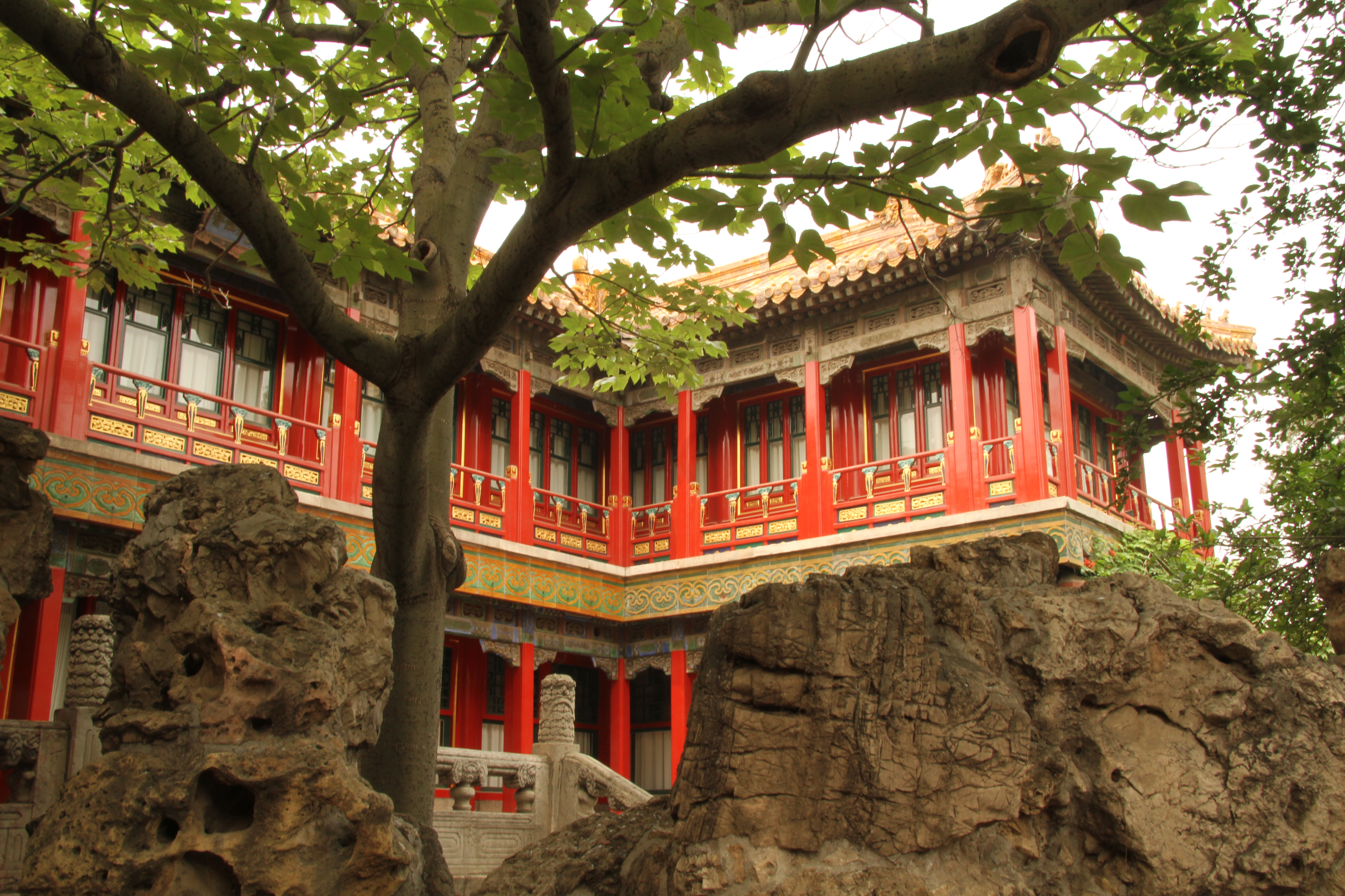 The Forbidden City - Beijing 35